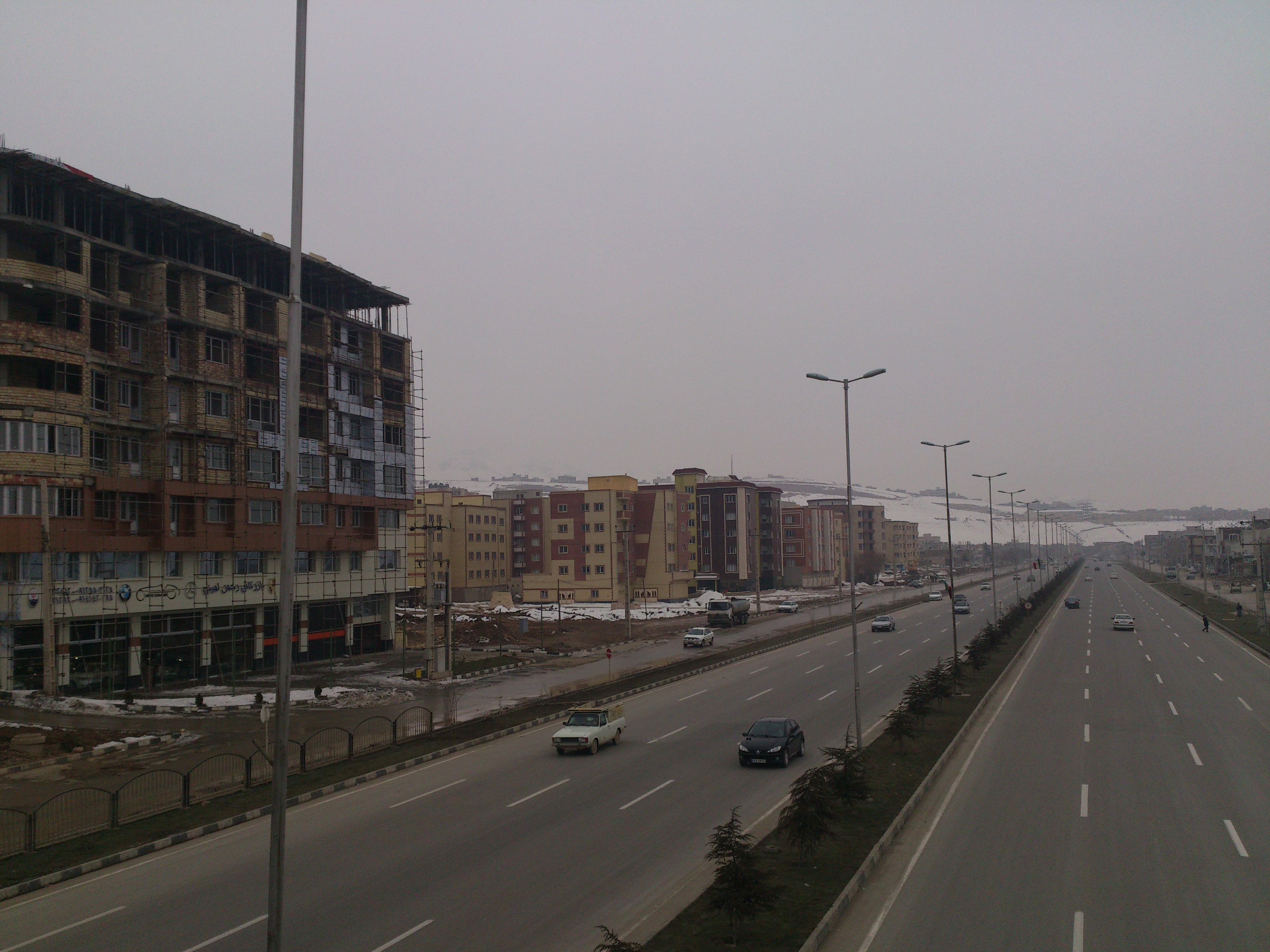 North-east Entrance of mahabad city Kurdî: ڕێگەی چوونه ناوەوەی مەهەباد